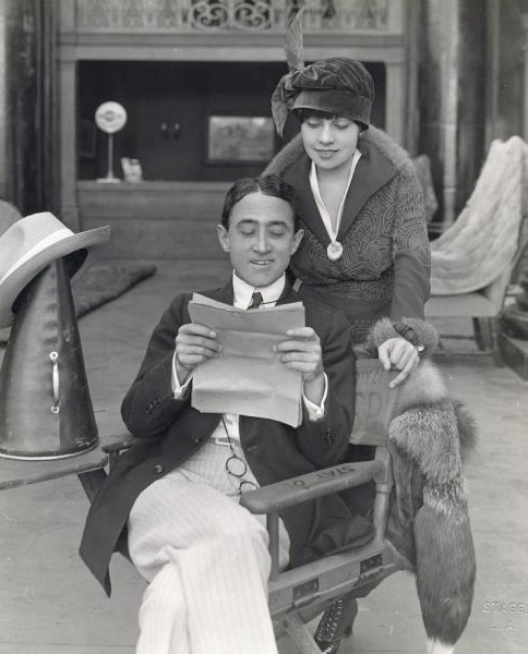 The writer Anita Loos and the director John Emerson looking over a script on a film set in 1918.